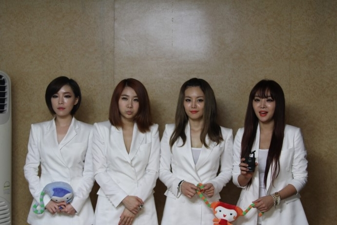 Brown Eyed Girls in July 10, 2012, during the Expo 2012 Yeosu.